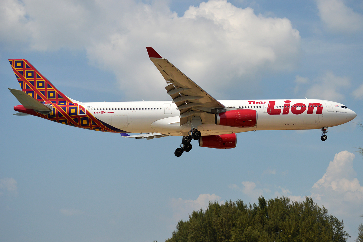 Thai Lion Air, HS-LAI, Airbus A330-343